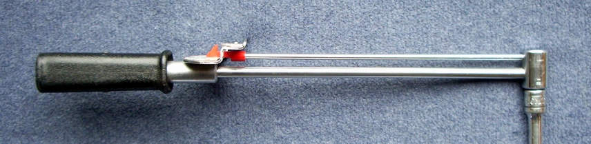 Example of a beam type torque wrench in profile. The indicator bar remains straight while the main shaft bends proportionally to the pressure applied at the handle. The handle is fastened by a pivot bolt so properly applied hand pressure provides consistently reproducible torque on the bolt.